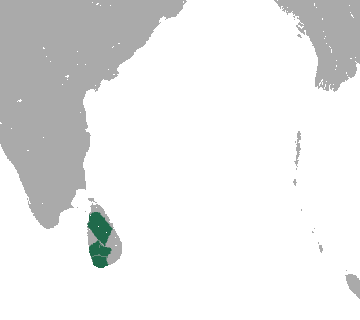 Purple-faced Langur (Trachypithecus vetulus) range